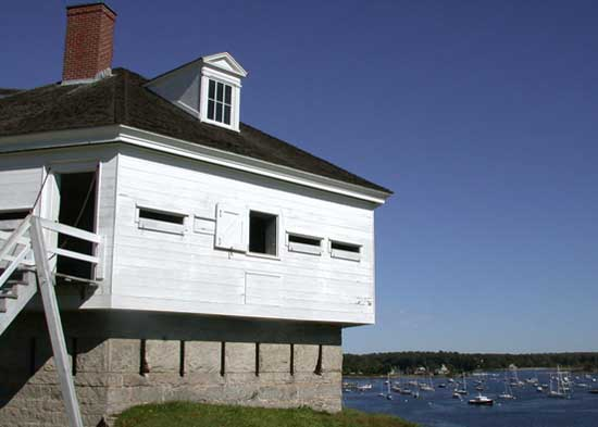 Fort McClary on the coast of Maine north of Kittery.